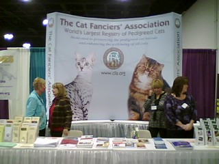 Author: Chris Miller|User:Miller17CU94|Chris Miller Source: Took picture myself. Purpose: To show the booth used by the Cat Fanciers' Association during their 2008 International Cat Show held in Atlanta, Georgia.